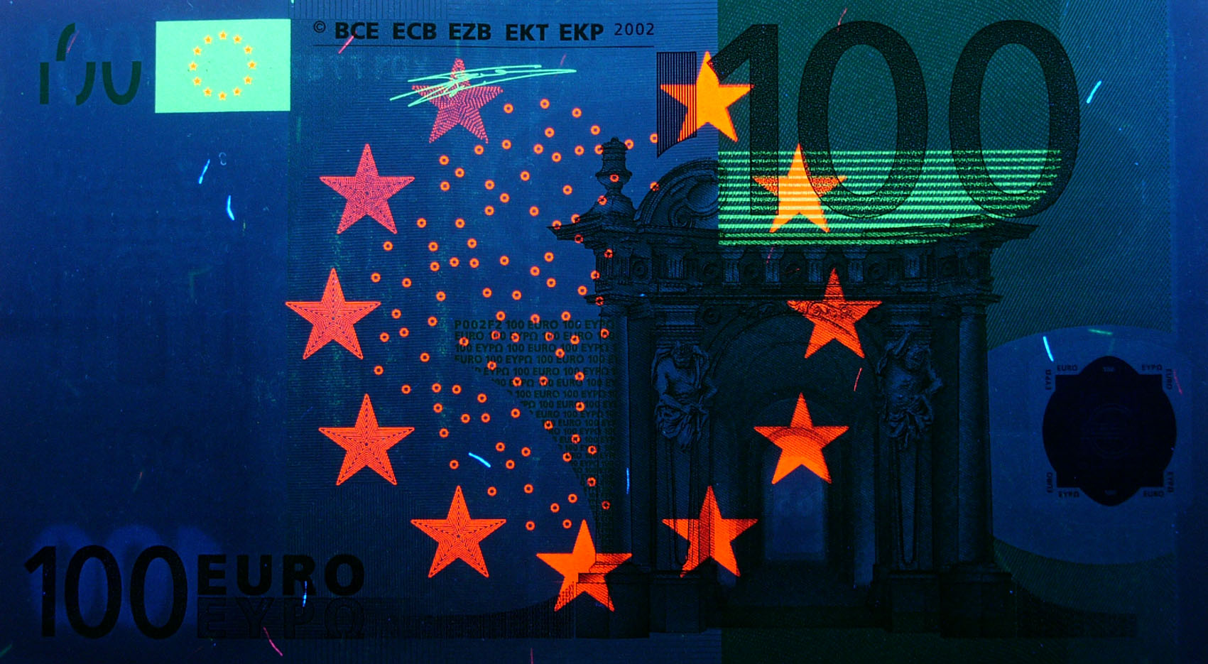 100-euro banknote under fluorescent light (UV-A)